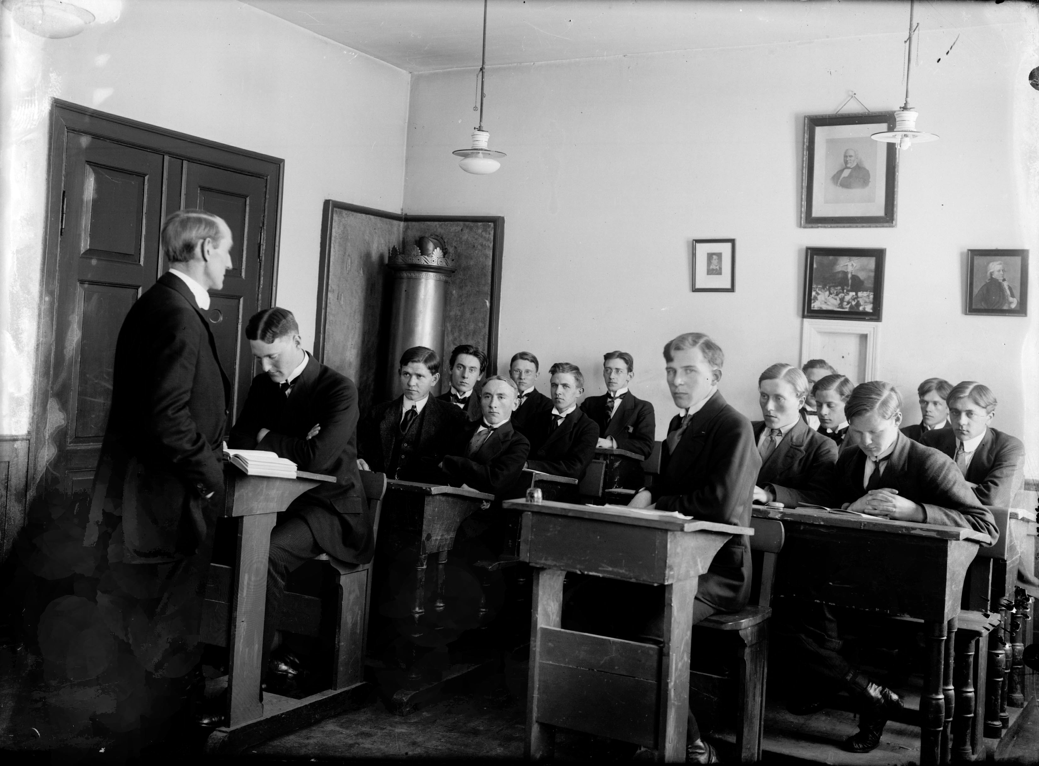 1918-1919. A class in Menntaskólinn í Reykjavík (Reykjavik Junior College).